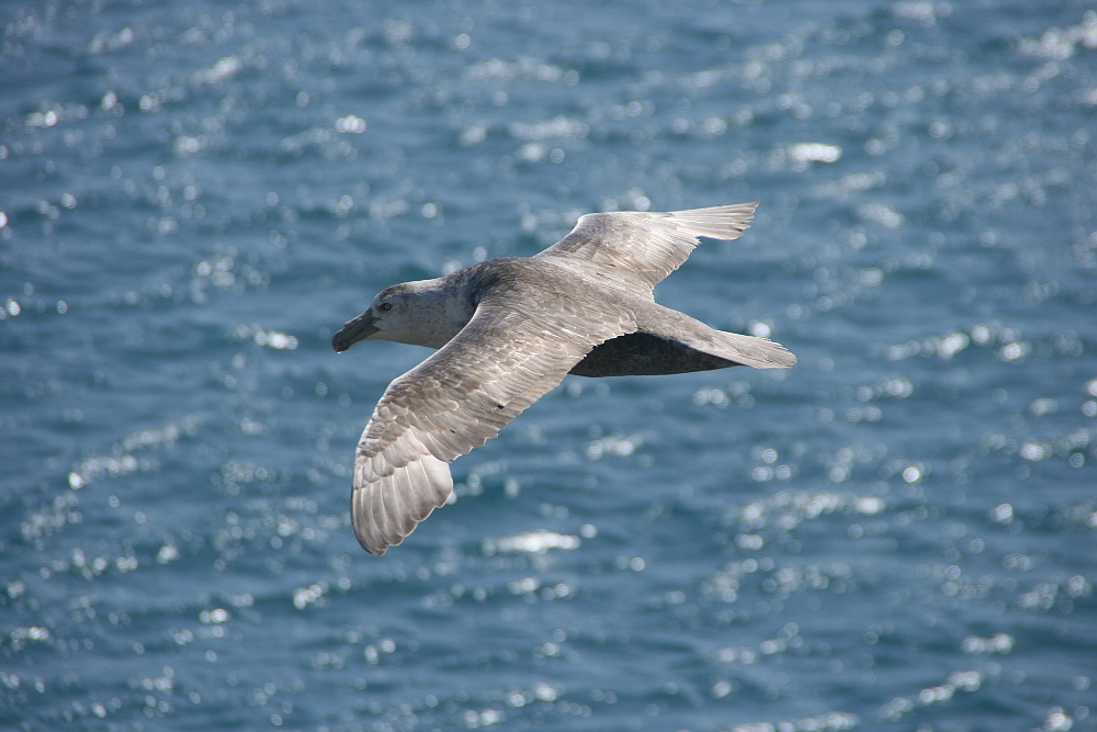 A southern giant petrel Macronectes giganteus off the coast of King George Island, Antarctica